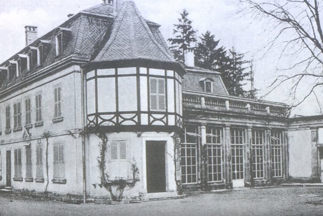 de nos jour CDR et infirmerie